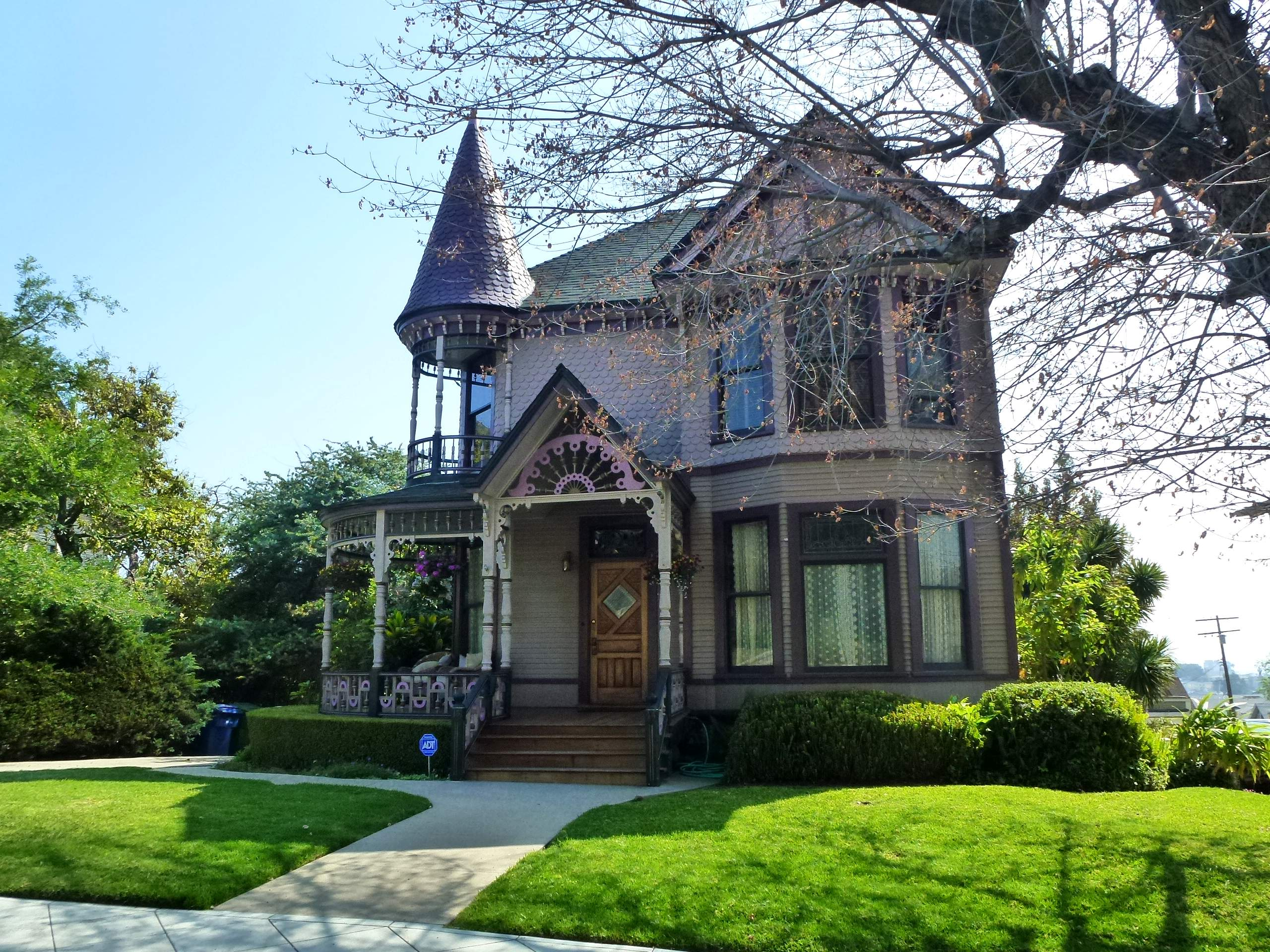 The last House to move on the street, pure Queen Anne Style